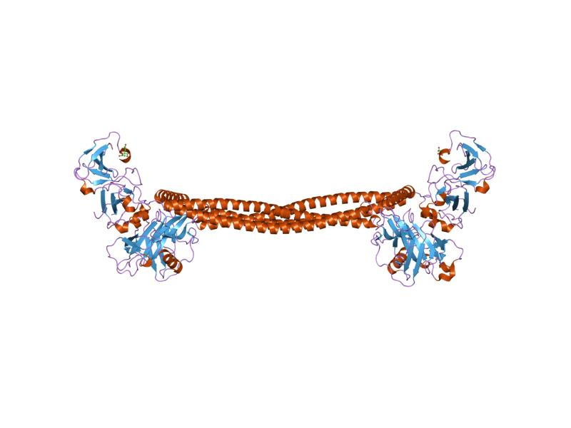 Cartoon representation of the molecular structure of protein registered with 2b5u code.